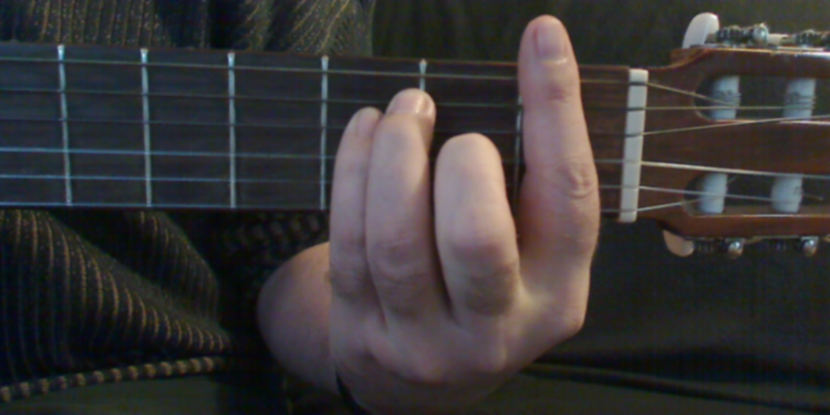 F Major Guitar Chord (barre chord)